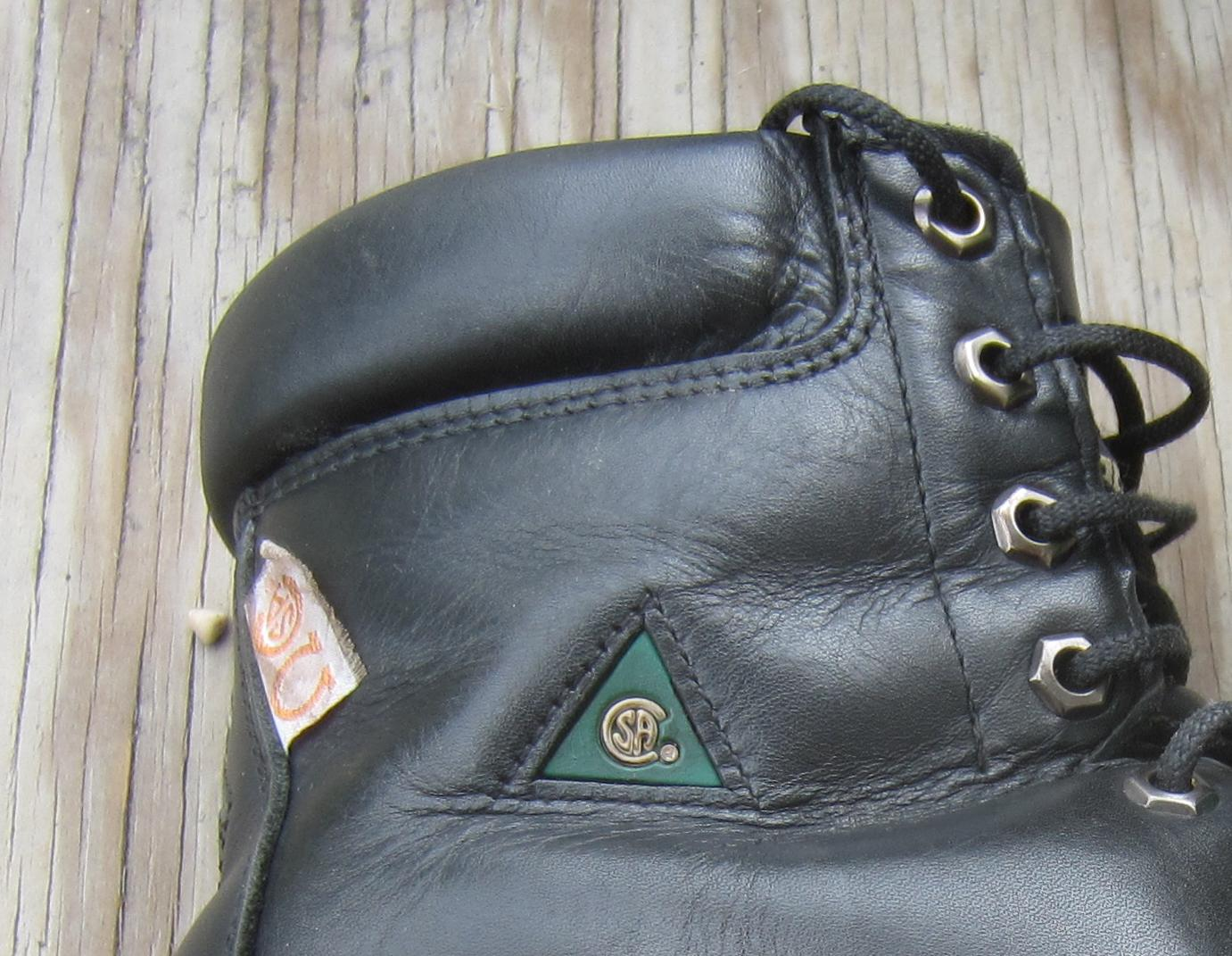 Canadian Standards Association (CSA) green triangle and orange electrical safety tags on a steel-toe safety work boot. These indicate that a manufacturer has submitted samples of these boots to a third-party laboratory for testing in compliance with CSA standard Z195.